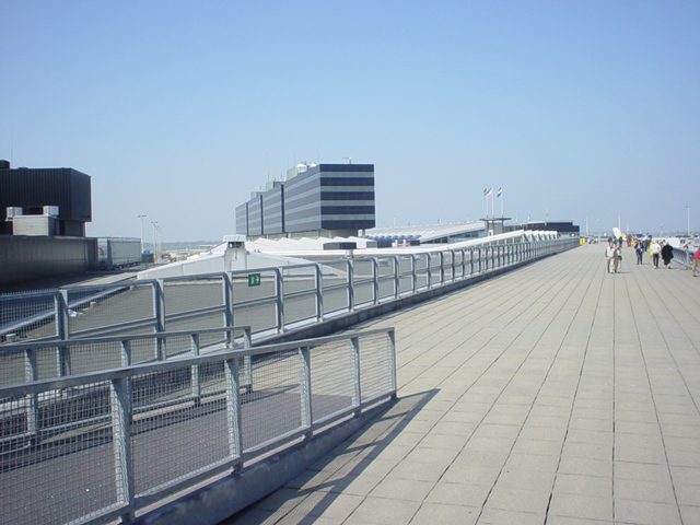 Schipol Airport